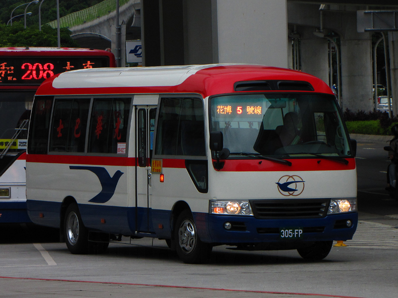 2010 Toyota Coaster 305-FP of Kuang-Hua Bus